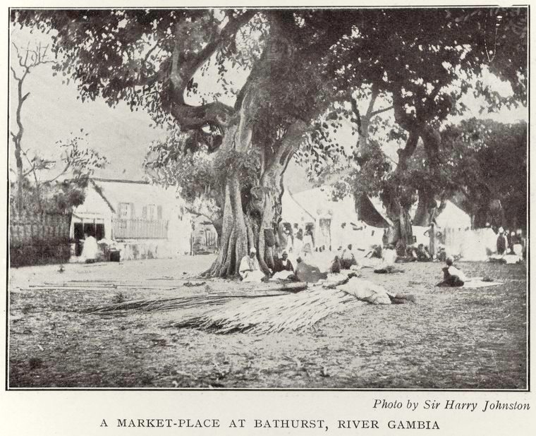 A market-place at Bathurst, River Gambia